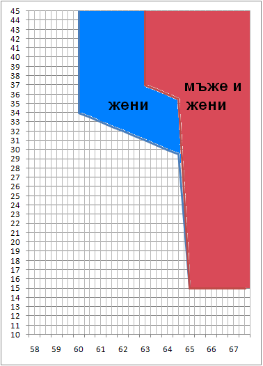 Pensionable age (X axis) and length of service (Y axis) after the point system (Bulgarian Social security code, Art. 68 Sec. II - IV, at 2009-01-09)